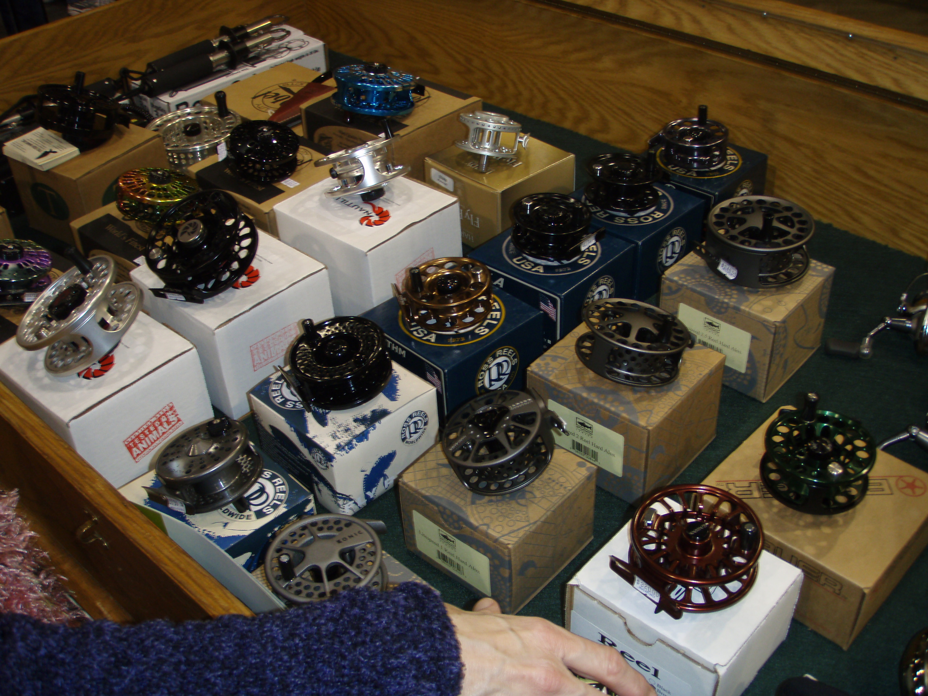 Fly Reels In A Case At A National Fly Fishing Show